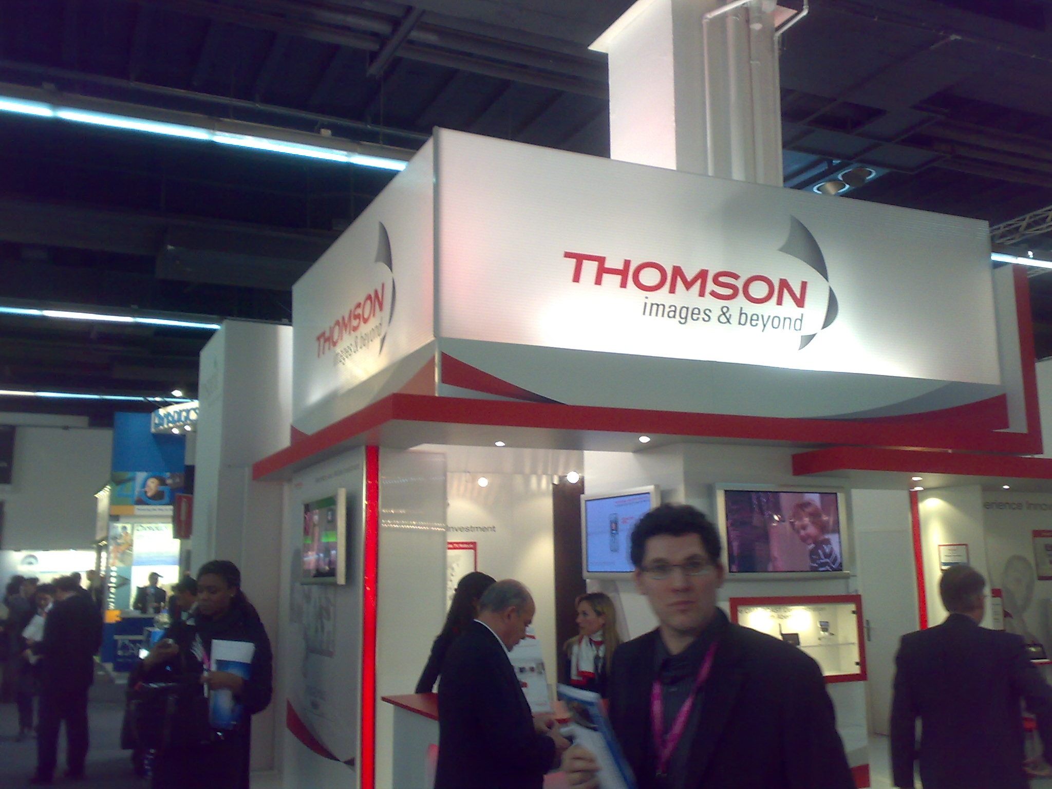 Thomson stand at GSMA Barcelona 2008